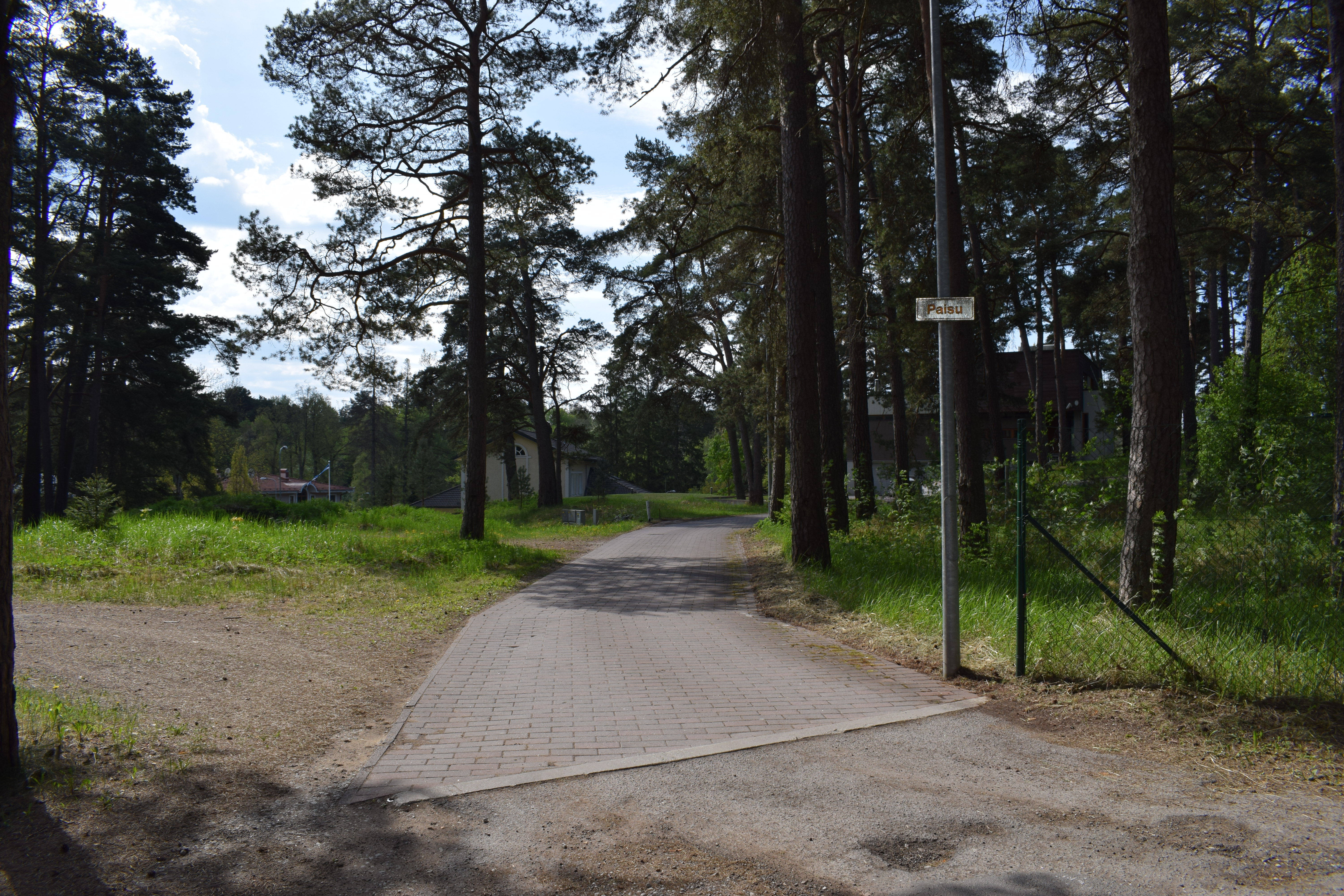 Paisu street